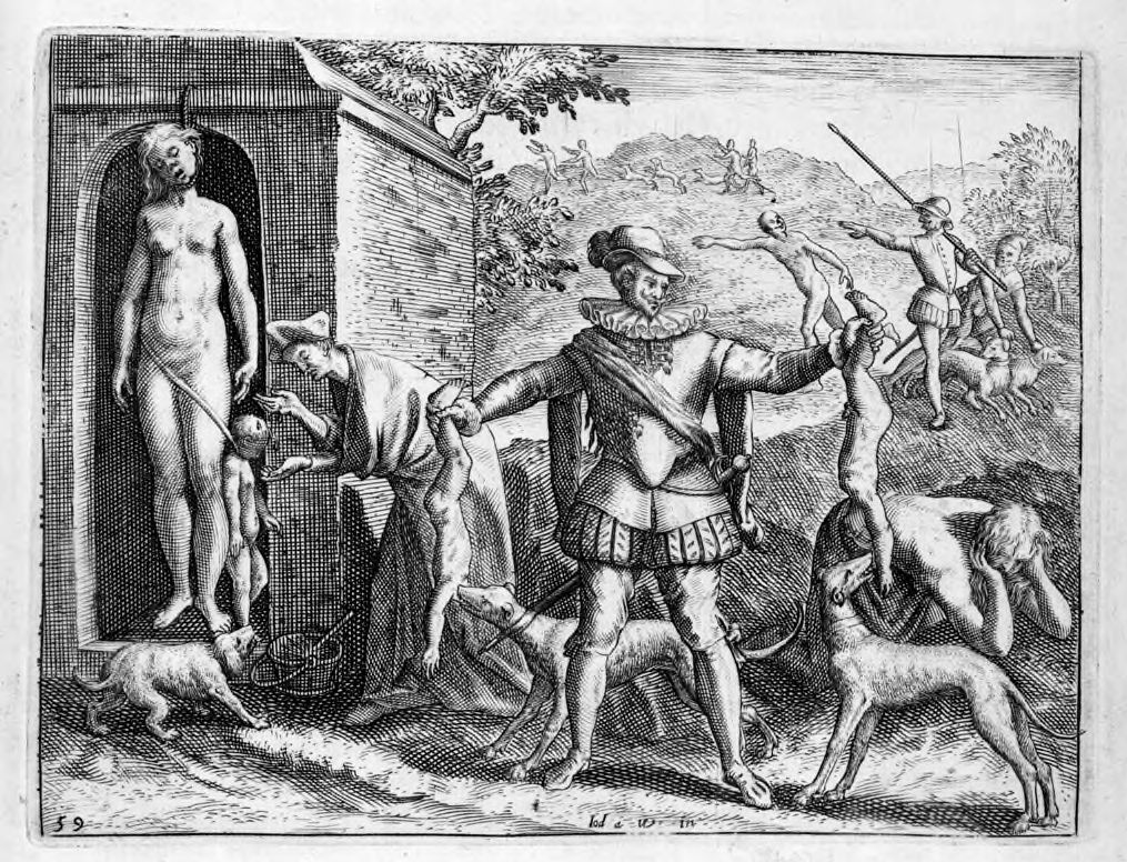 Spaniards killing women and children and feeding their remains to dogs. From "Illustrations de Narratio regionum Indicarum per Hispanos quosdam devastattarum"